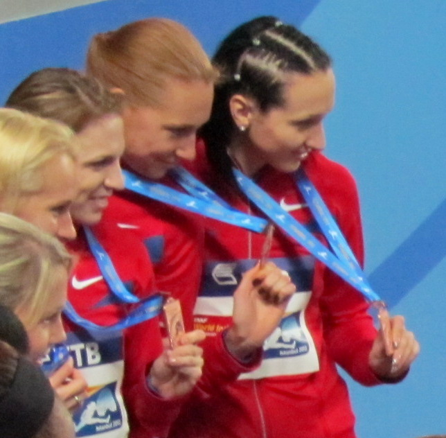 The 2012 IAAF World Indoor Championships in Athletics was the 14th edition of the global-level indoor track and field competition and was held between March 9–11, 2012 at the Ataköy Athletics Arena in Istanbul, Turkey. Yulia Gushchina, Kseniya Ustalova, Marina Karnaushchenko, Aleksandra Fedoriva